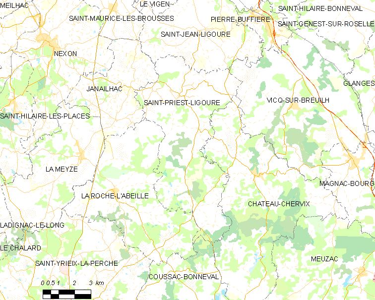 Map of French municipality Saint-Priest-Ligoure